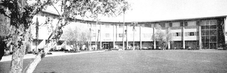 Photo of the Sands Hotel’s Aqueduct building which was new in 1963 and contained the most expensive suites of the Sands at that time.